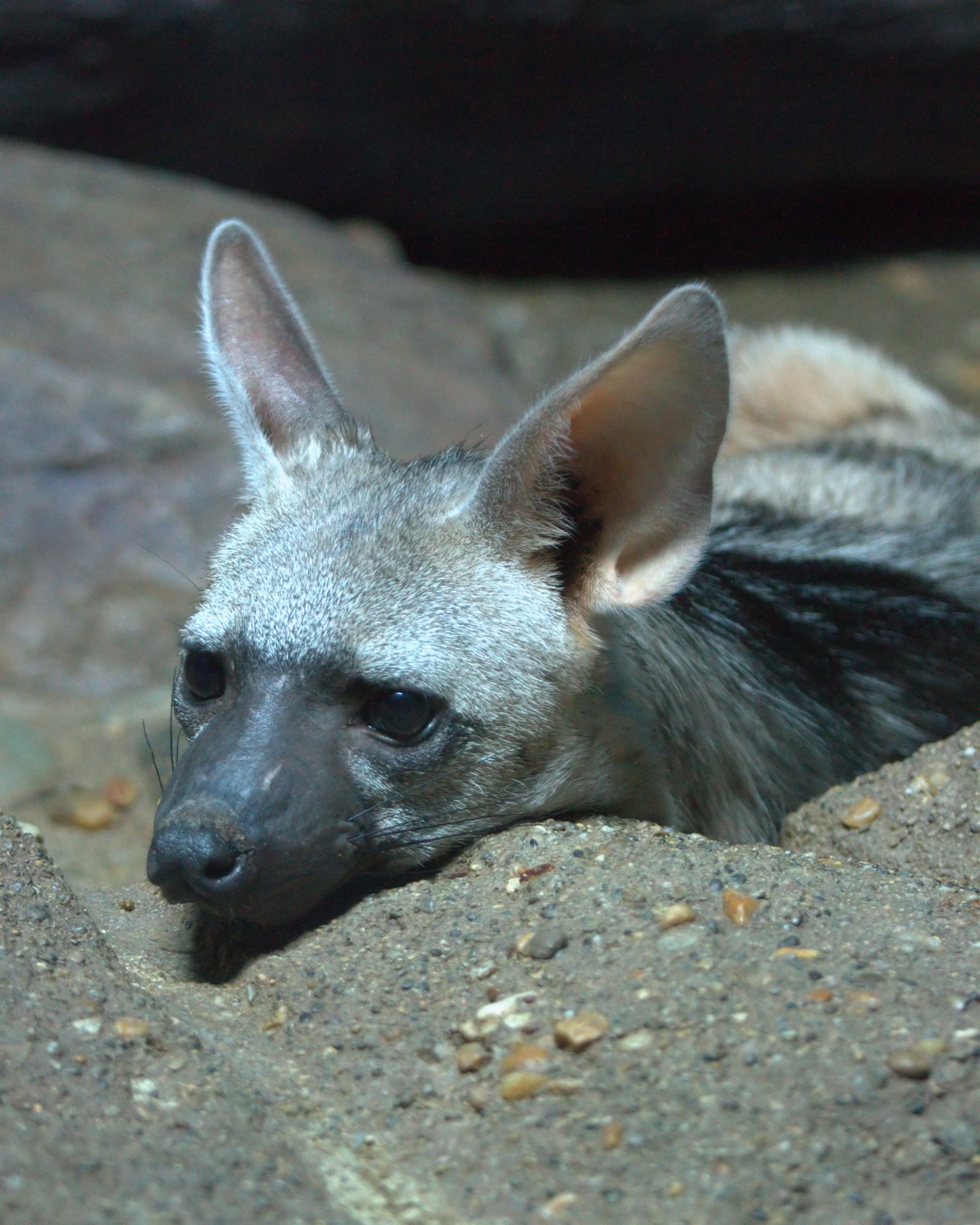 Aardwolf at the Cincinnati Zoo.